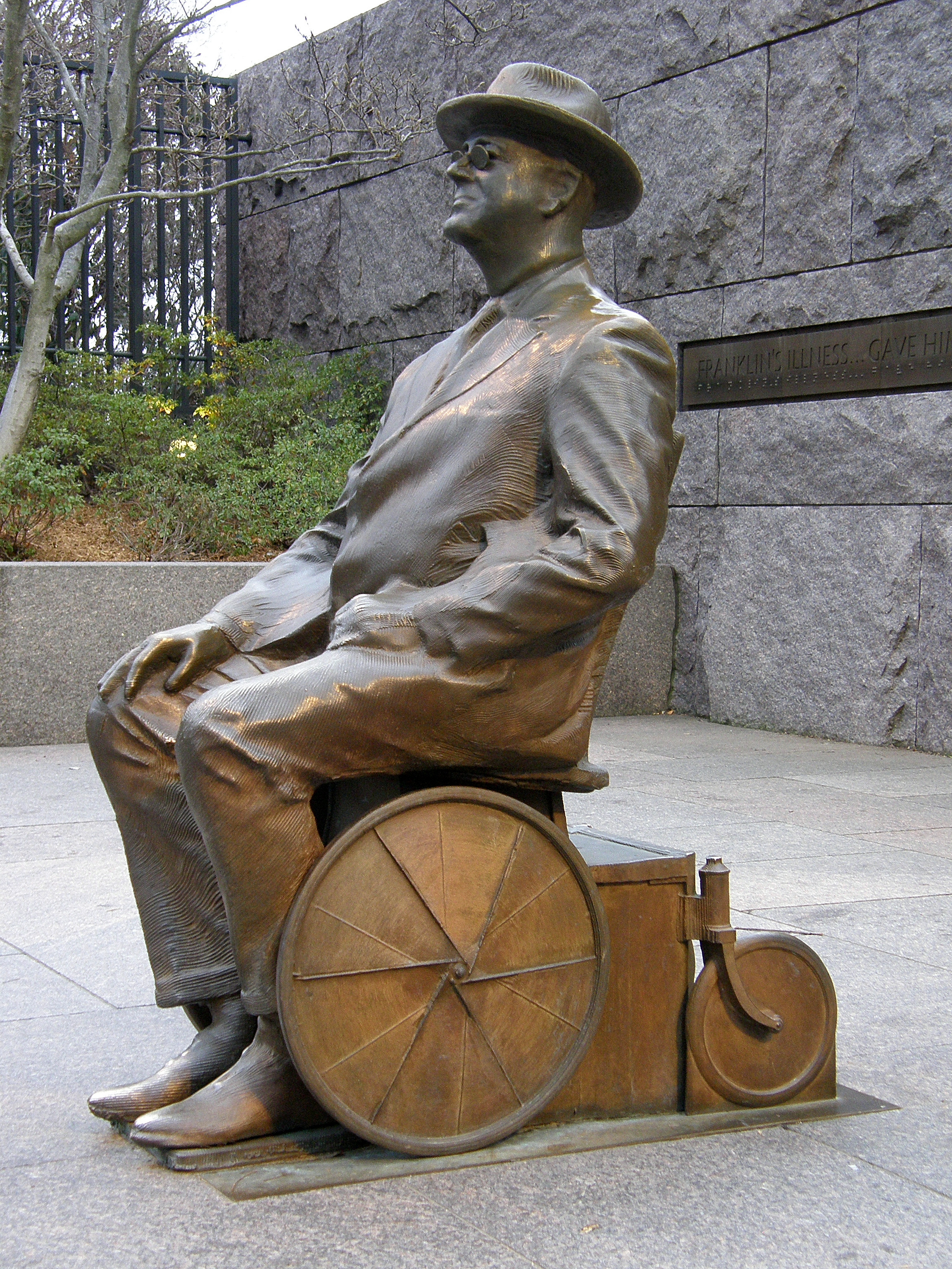 Statue of Franklin Delano Roosevelt in wheelchair